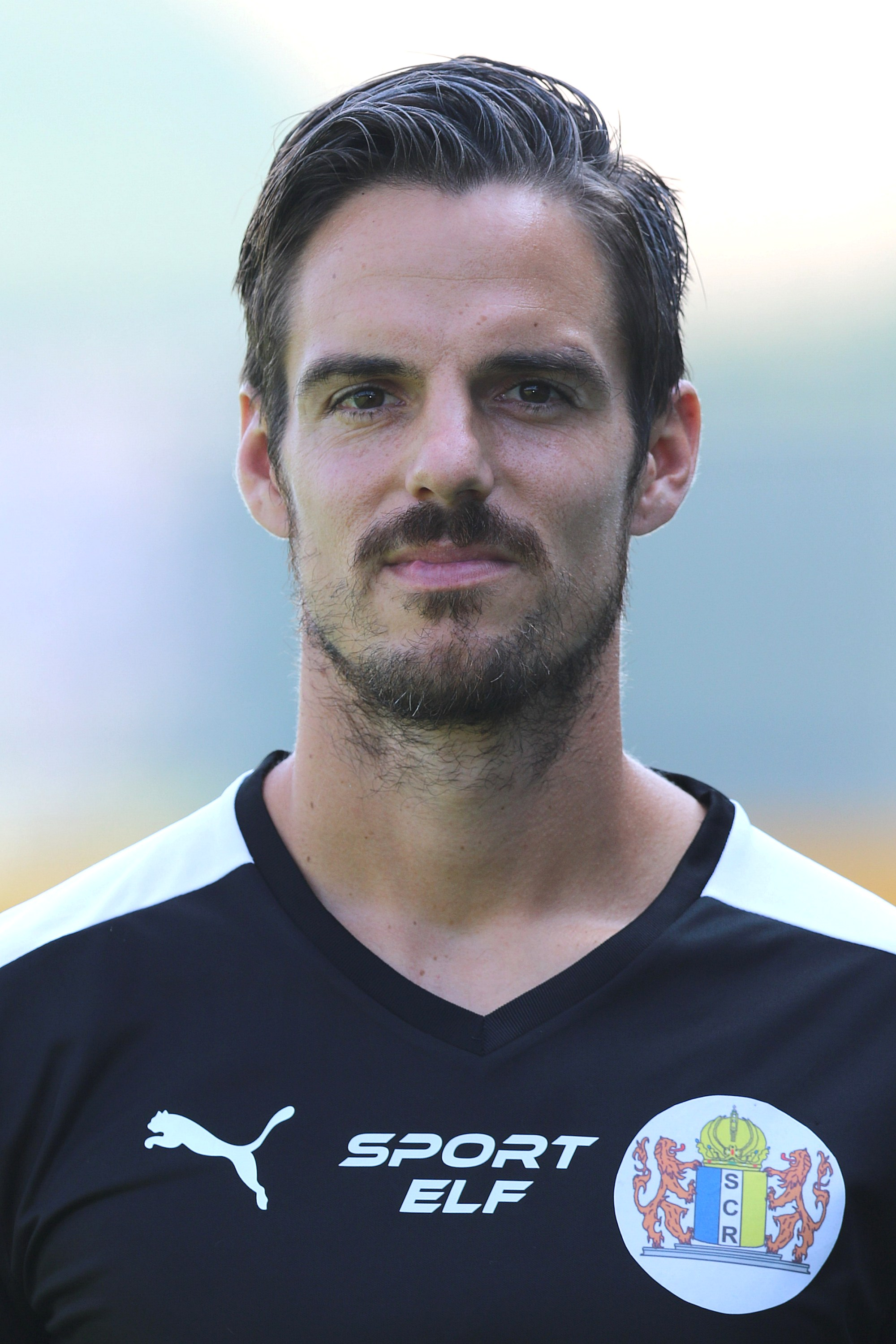 SC Ritzing squad for the 2016-17 season. – The photo shows Mario Sara.